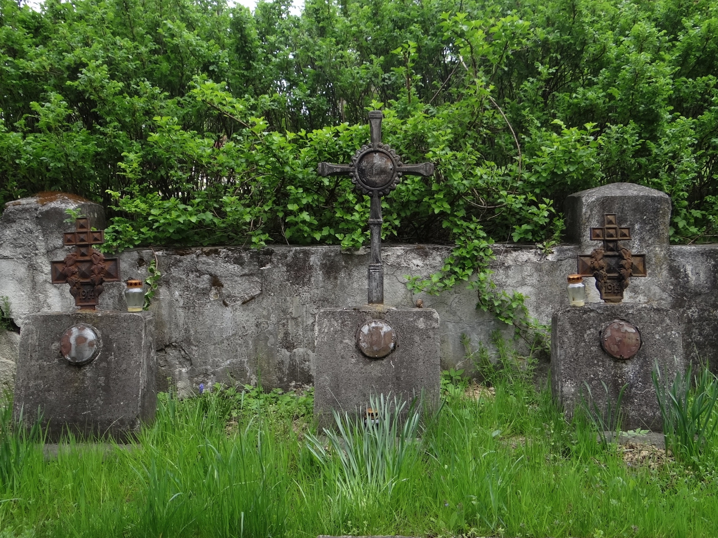 World War I Cemetery nr 152 in Siedliska